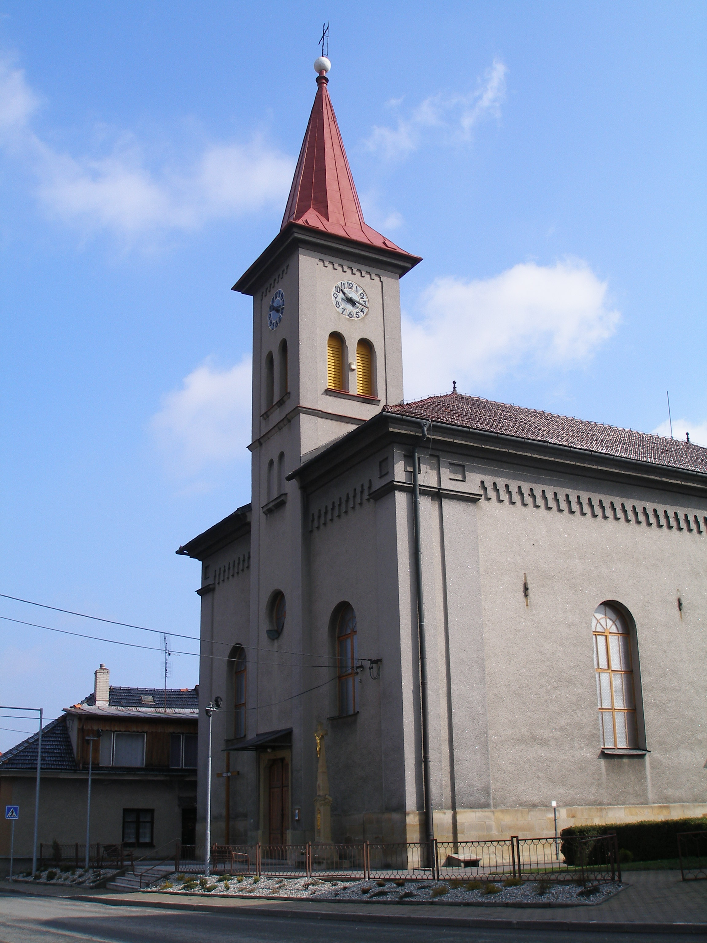 Church in Mořkov.